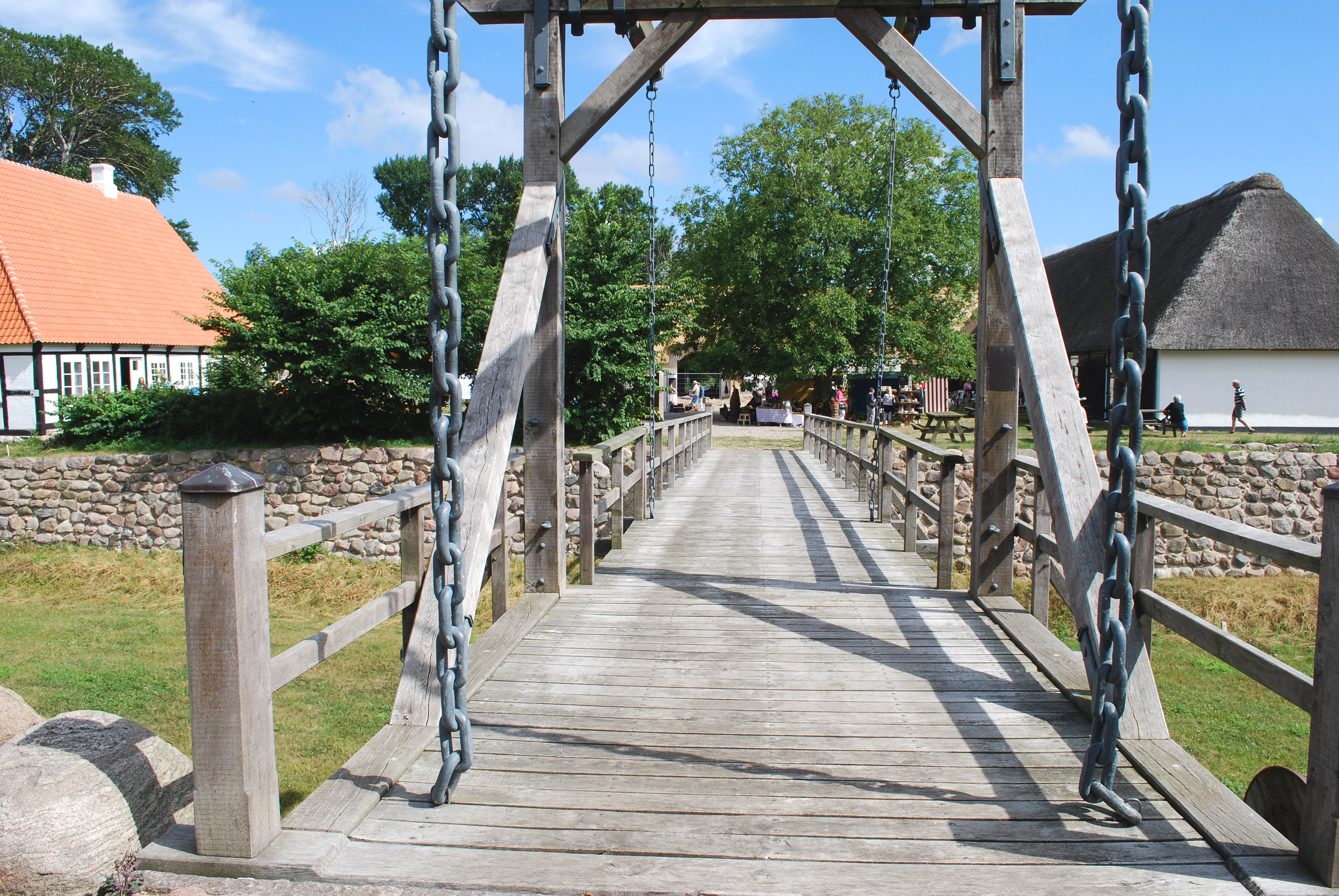 Søbygård, Ærø - Denmark